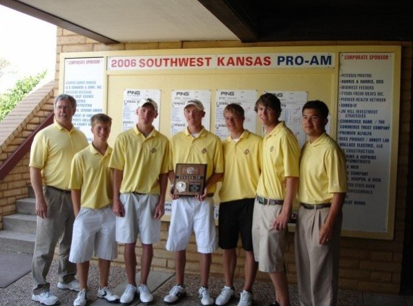 The 2007 GCHS golf team